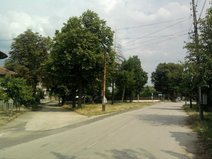 Vazrazhdane square in Novo selo, Vidin Province, Bulgaria